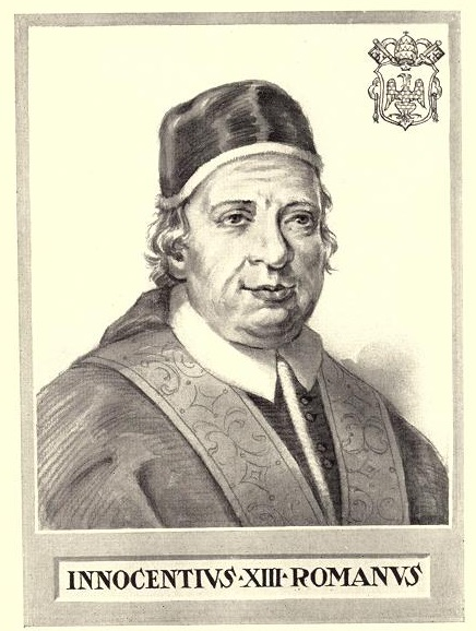 This illustration is from The Lives and Times of the Popes by Chevalier Artaud de Montor, New York: The Catholic Publication Society of America, 1911. It was originally published in 1842.